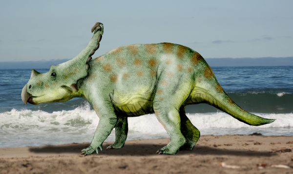 Vagaceratops